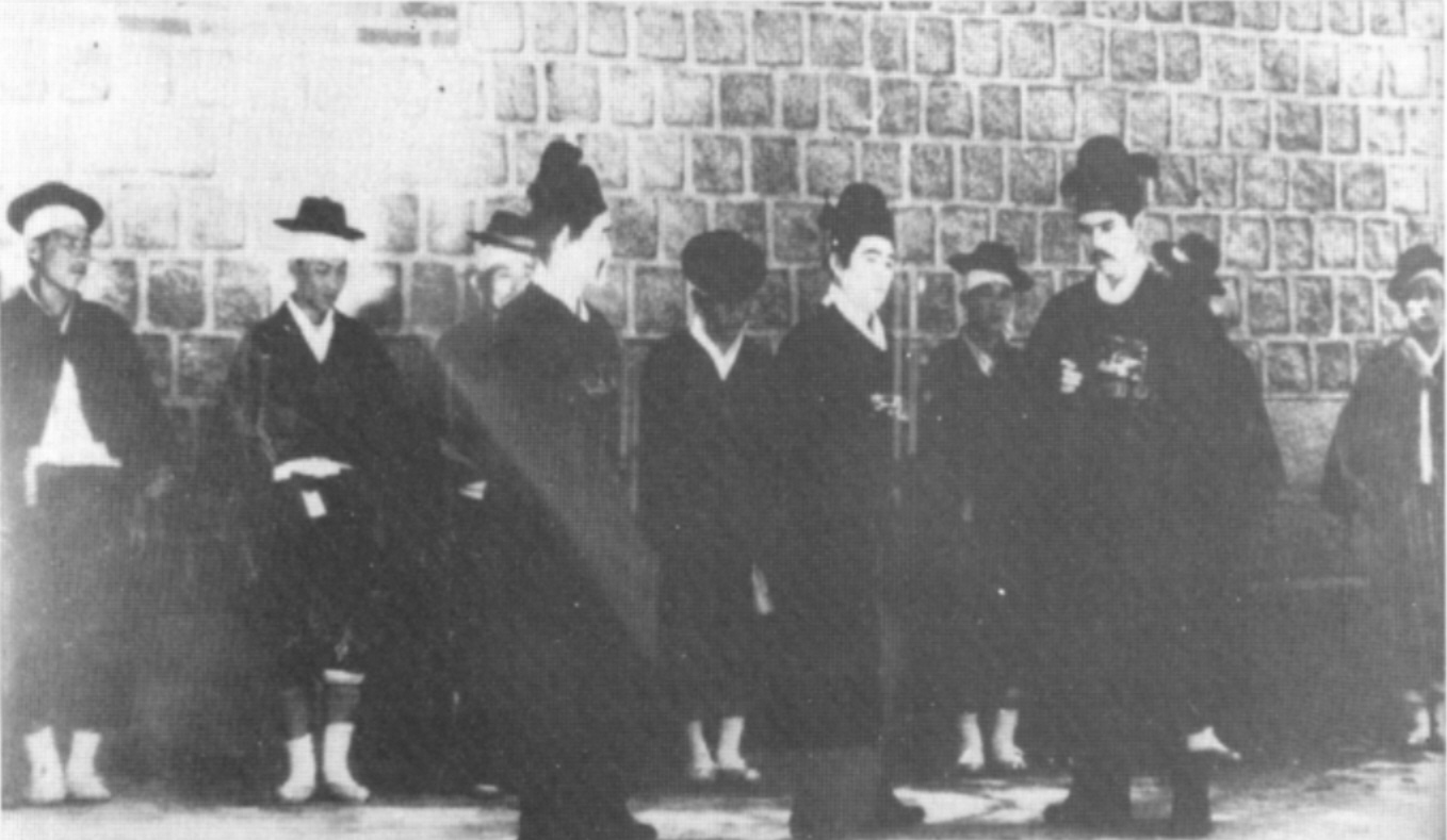 Promotional poster for the Na Woon-gyu (1902 – 1937) film, Gaehwadang imun (1932).